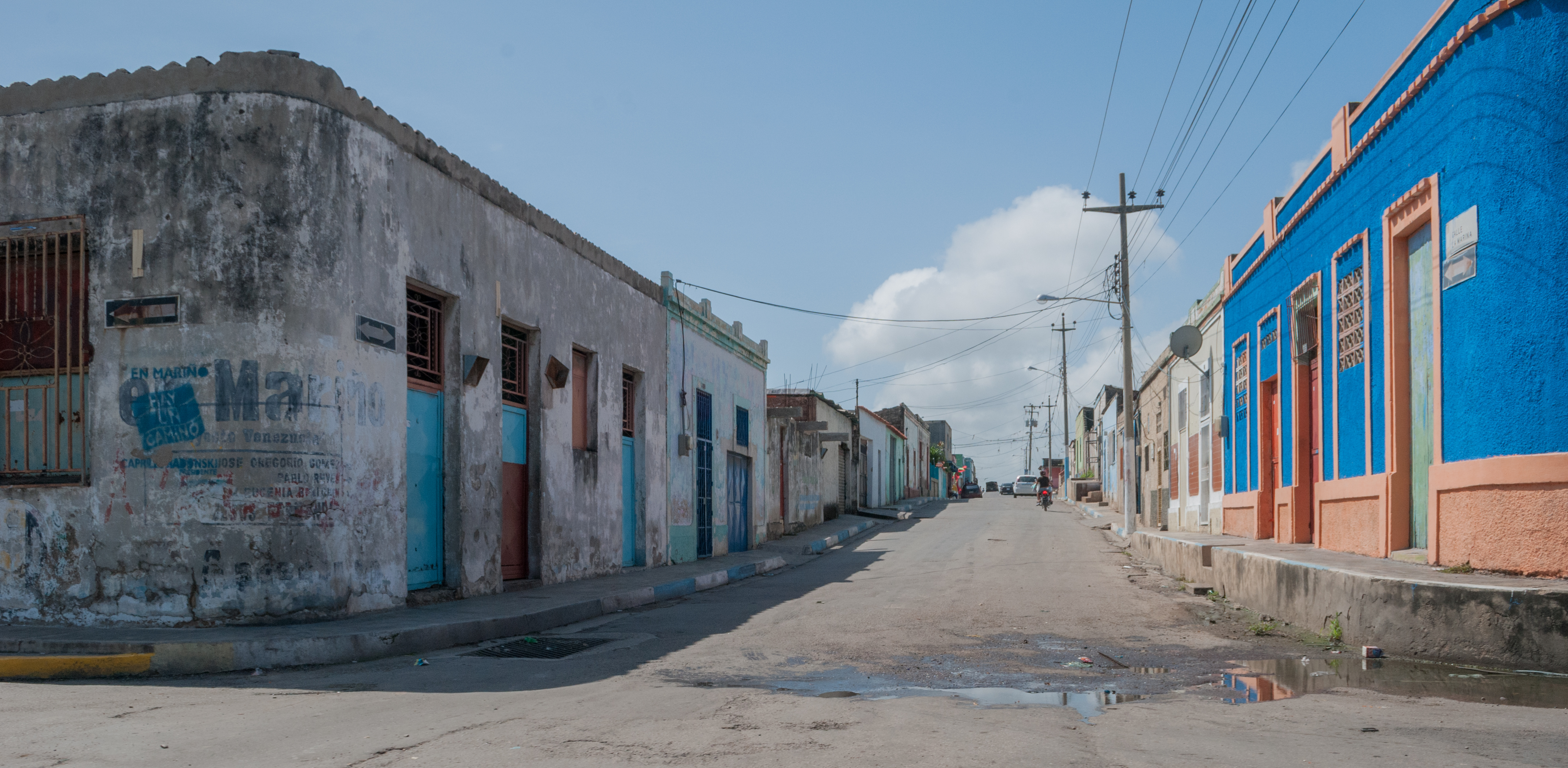 Typical houses colonial Porlamar, Margarita Island